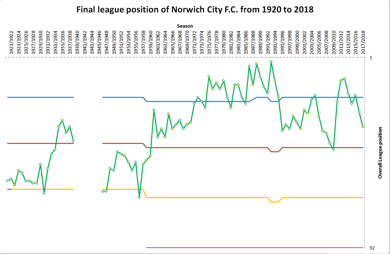 Graph depicting the final league position of Norwich City F.C. each season from 1920